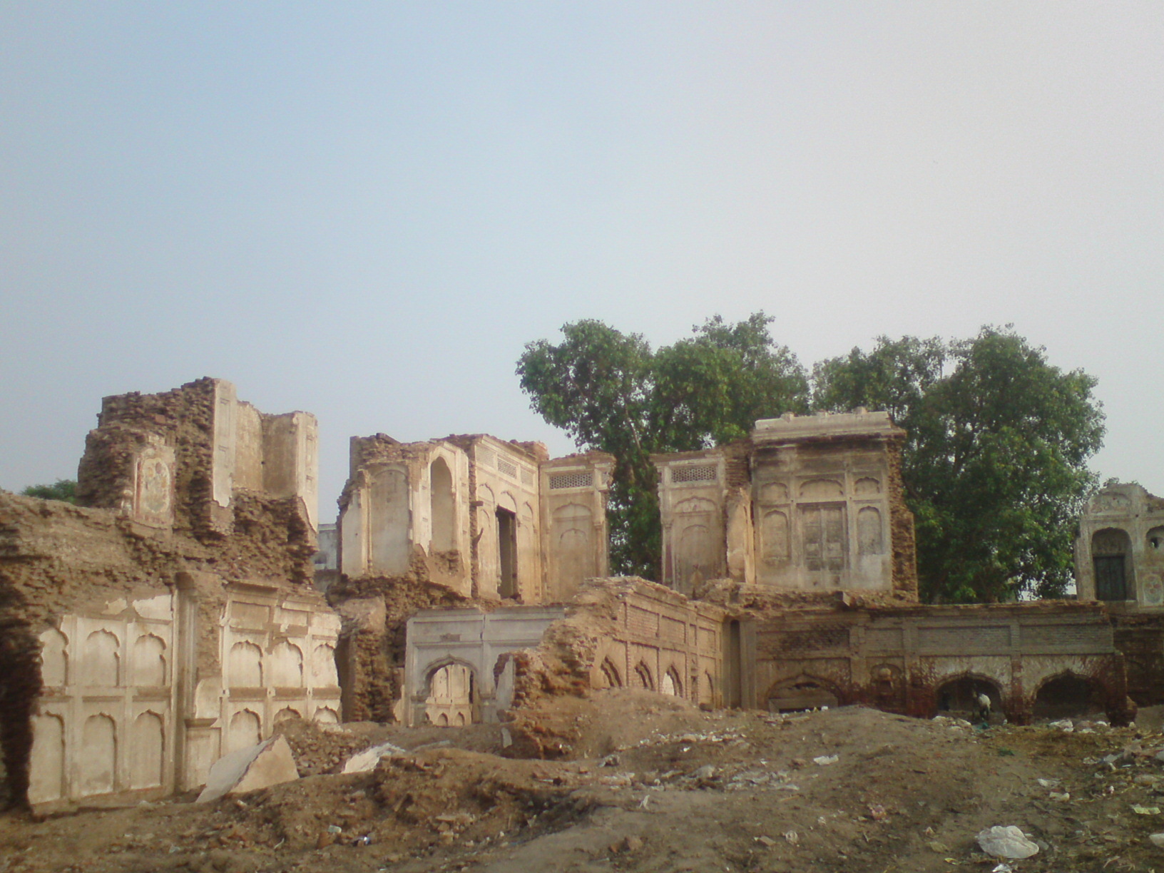 Mansion of Rangiot singh's Era